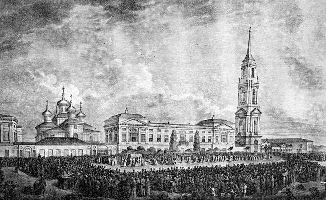 Mitrofanovsky monastery